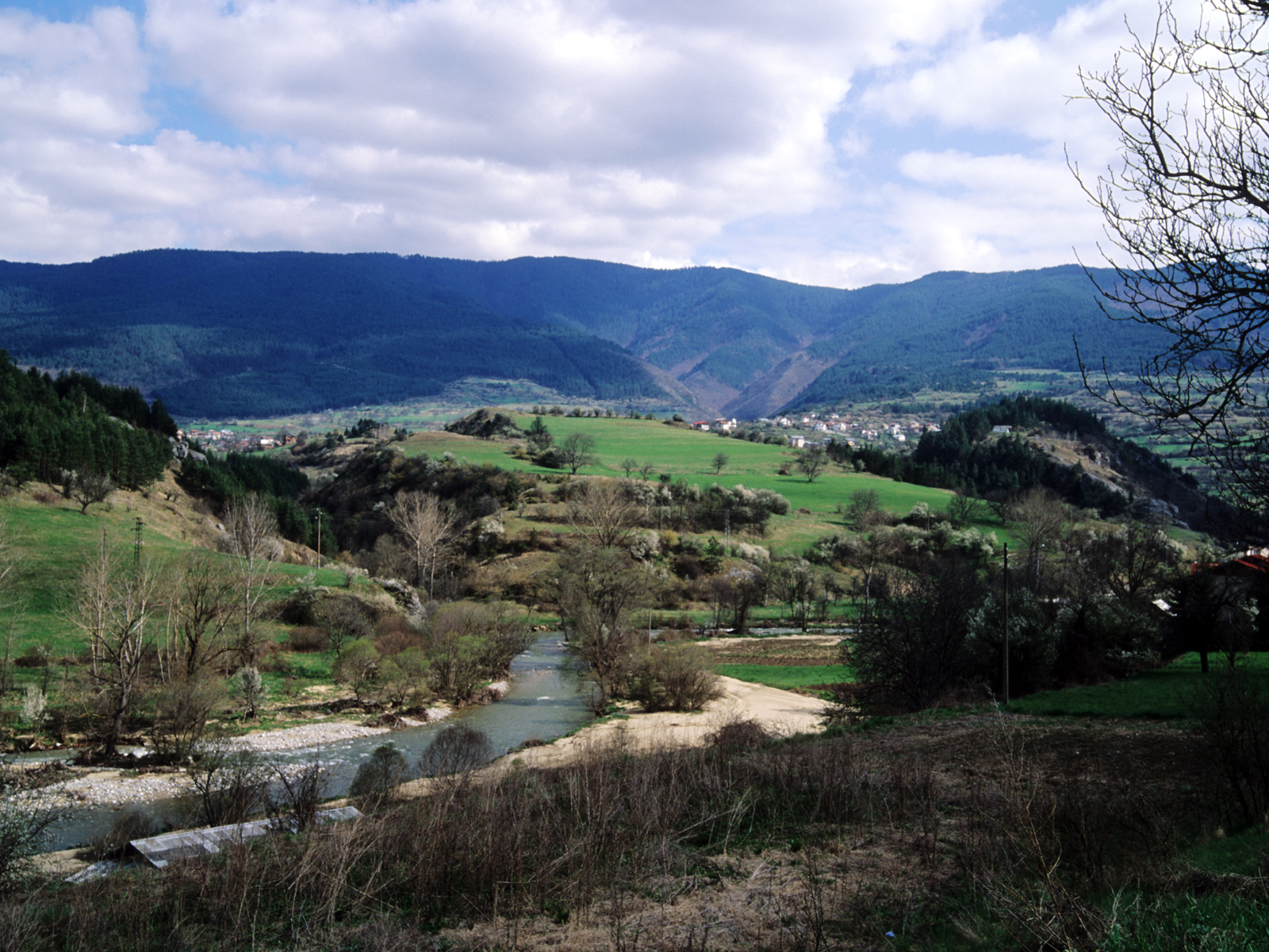 Hvoina village in Rhodope mountains, Bulgaria